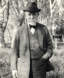 James John Hagerman, investor in mines and irrigation works in Colorado and New Mexico.